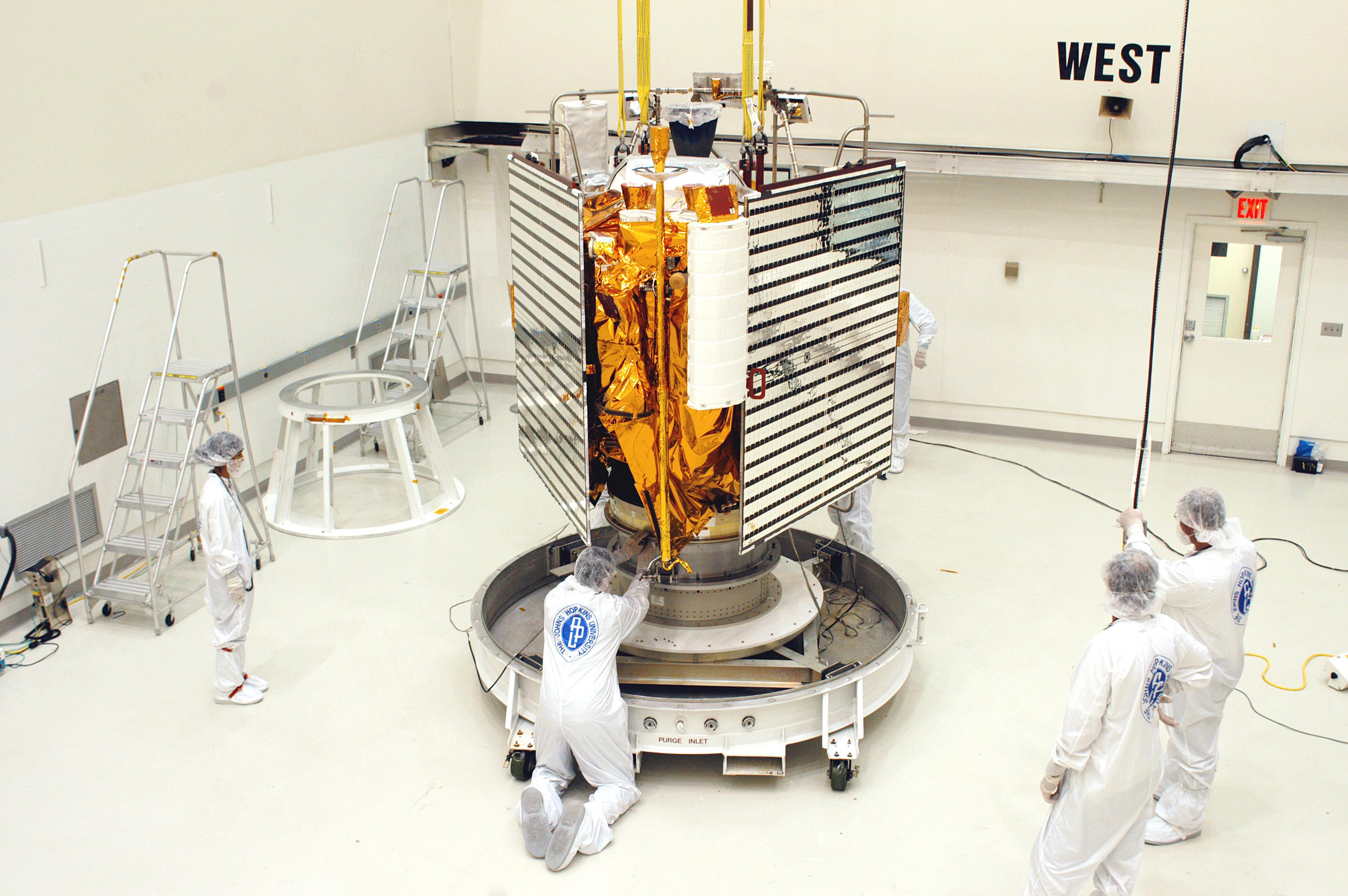 At Astrotech in Titusville, Fla., technicians with The Johns Hopkins University Applied Physics Laboratory (APL) prepare the MESSENGER spacecraft for a move to a hazardous processing facility in preparation for loading the spacecraft's complement of hypergolic propellants.